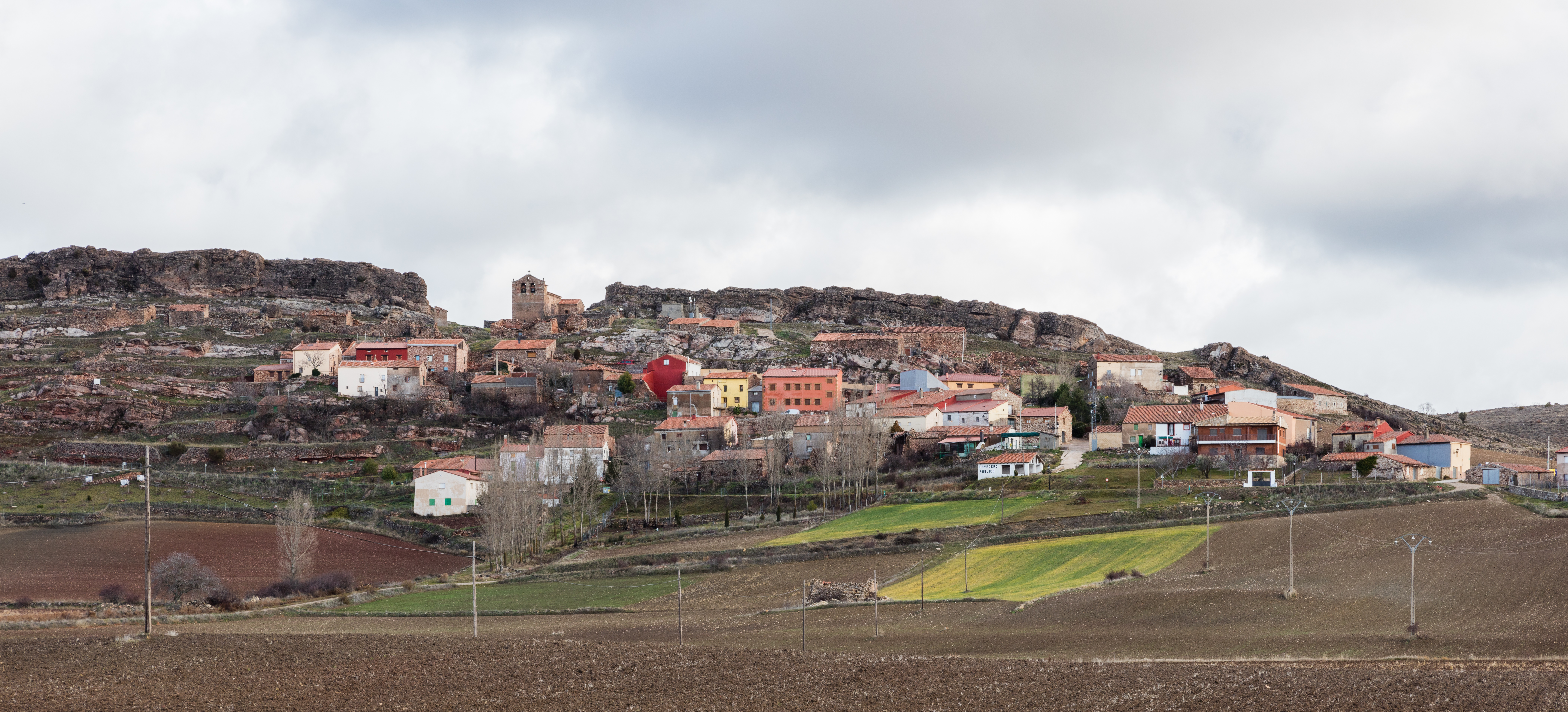 Padilla del Ducado, Guadalajara, Spain